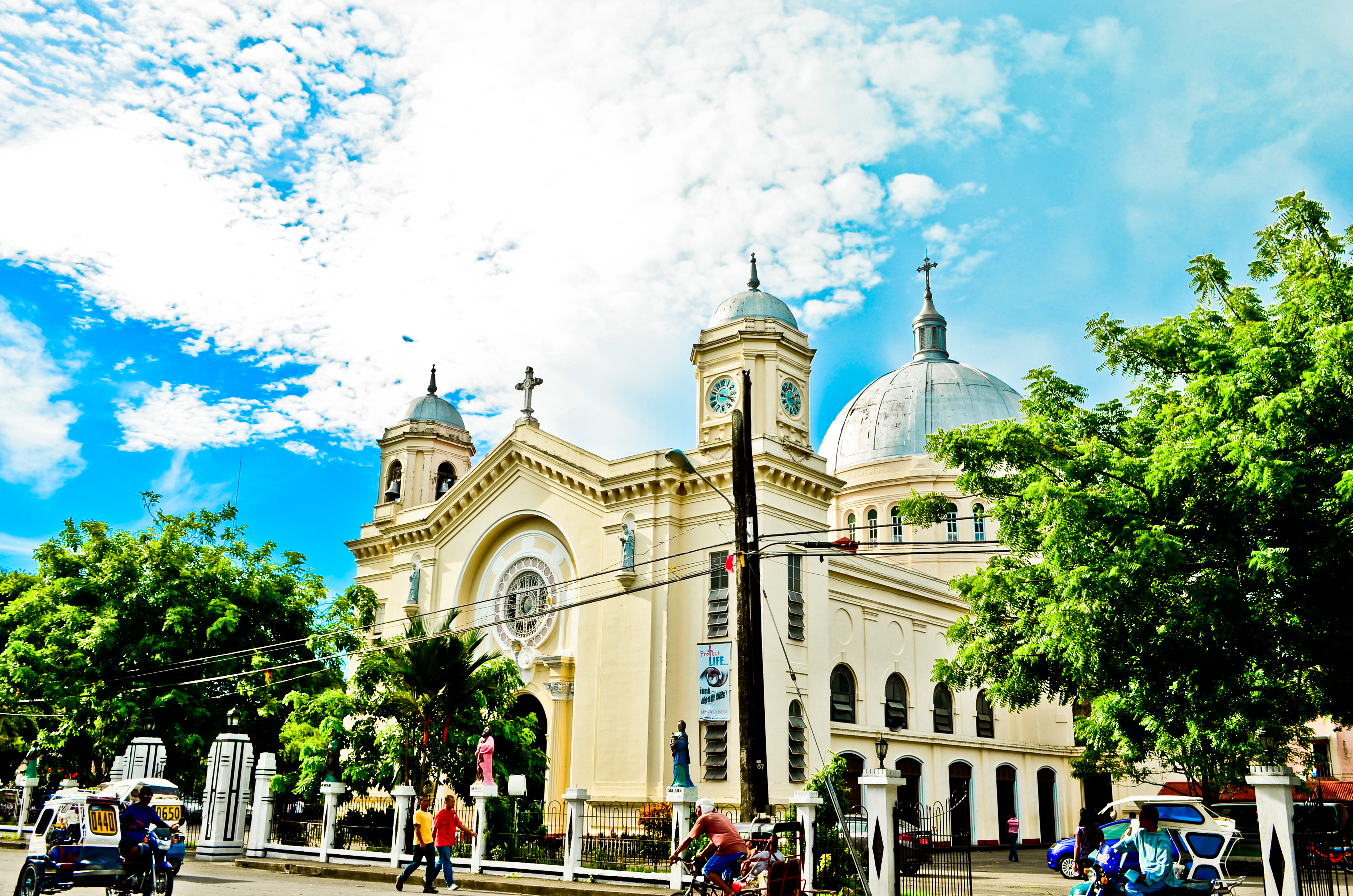 San Diego Pro-Cathedral, Silay, Negros Occidental